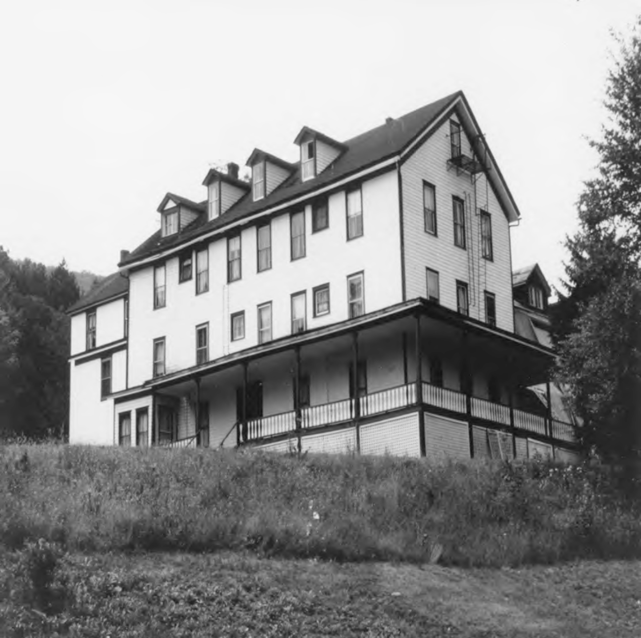 Pakatakan Lodge, Pakatakan Artist Colony, Route 28 and Dry Brook Road_Arkville_Delaware_New York